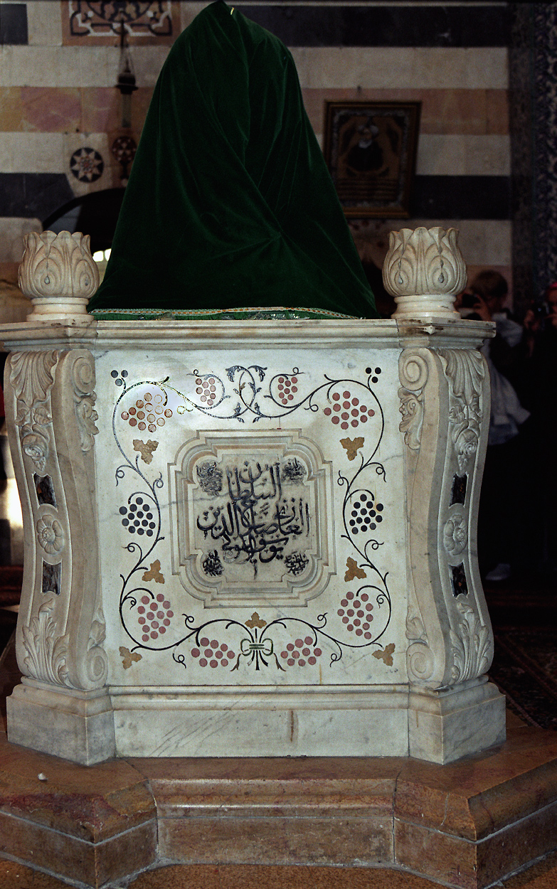 Damascus, the tomb of sultan Saladin